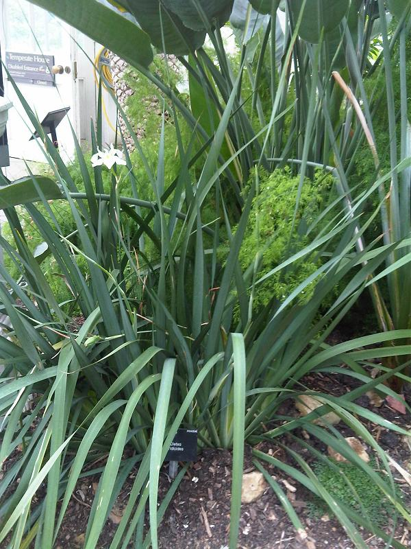 Dietes iridioides in Kew Gardens, London, England.